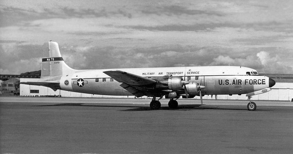 Douglas C-118A Liftmaster 53-3251 delivered to USAF Feb 24, 1955. WFU and stored MASDC Jun 1975. Sold as scrap May 20, 1982 and broken up.